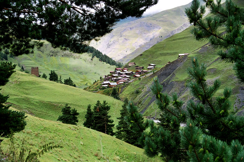 Jvarboseli (ჯვარბოსელი) in Tusheti Georgia